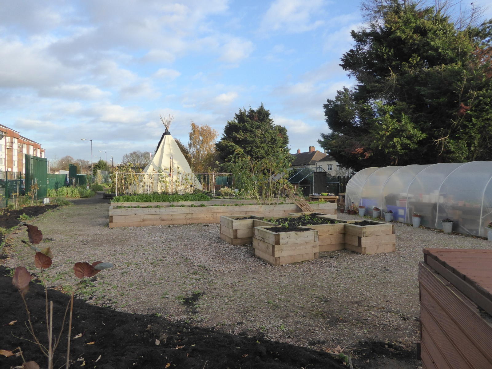 St Raphael's Edible Garden